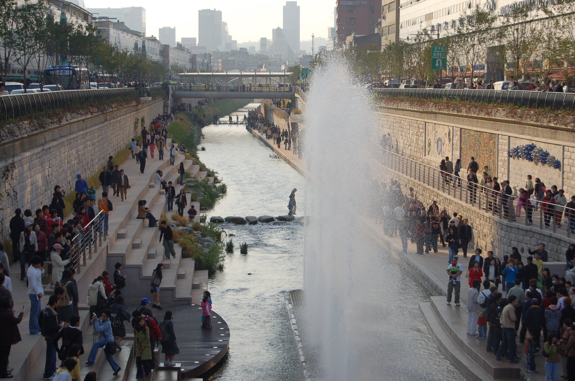 Cheonggyecheon stream in Seoul